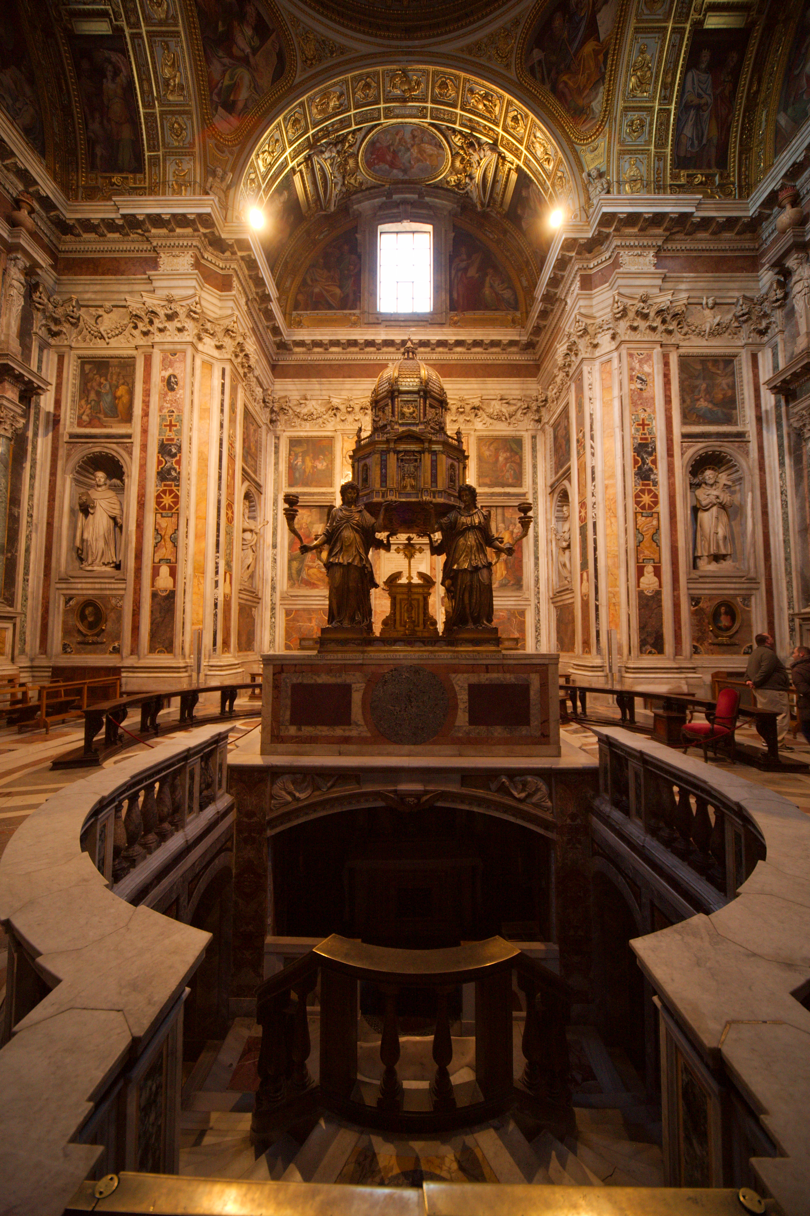 Tabernacle in the Sistine Chapel of Basilica di Santa Maria Maggiore, c. 1590. Bronze angels made by Bastiano Torrigiani, other artwork was made by Leonardo Sarzana based upon a design by Giovanni Battista Ricci.